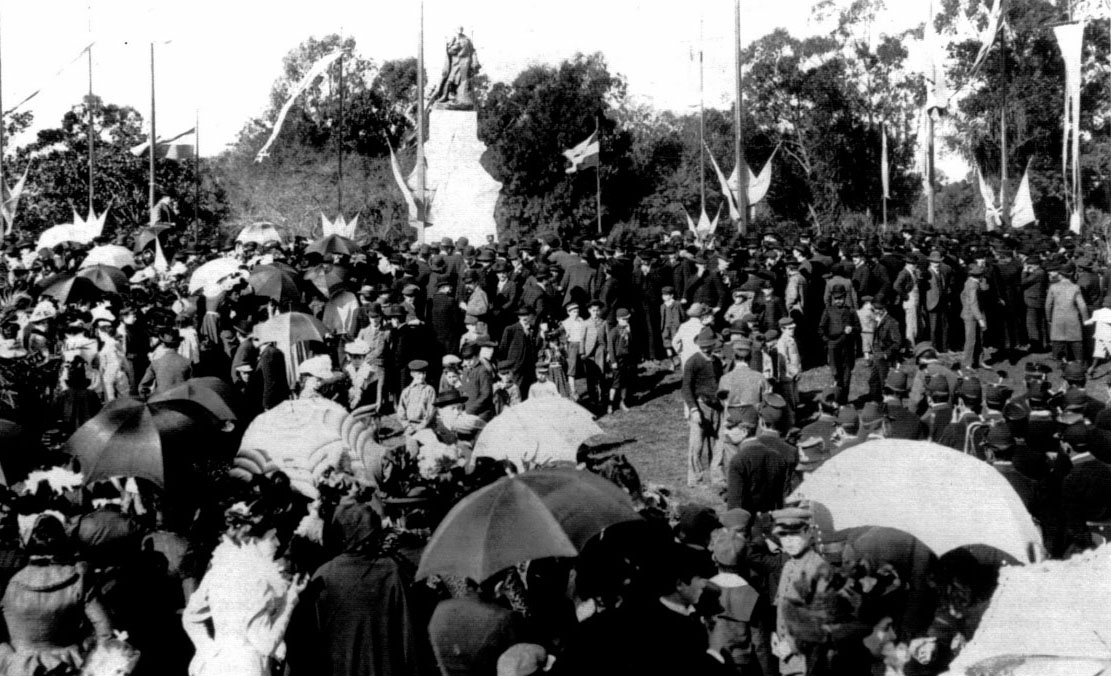 Inauguration of the statue of Domingo Sarmiento made by sculptor Auguste Rodin in Palermo, Buenos Aires.